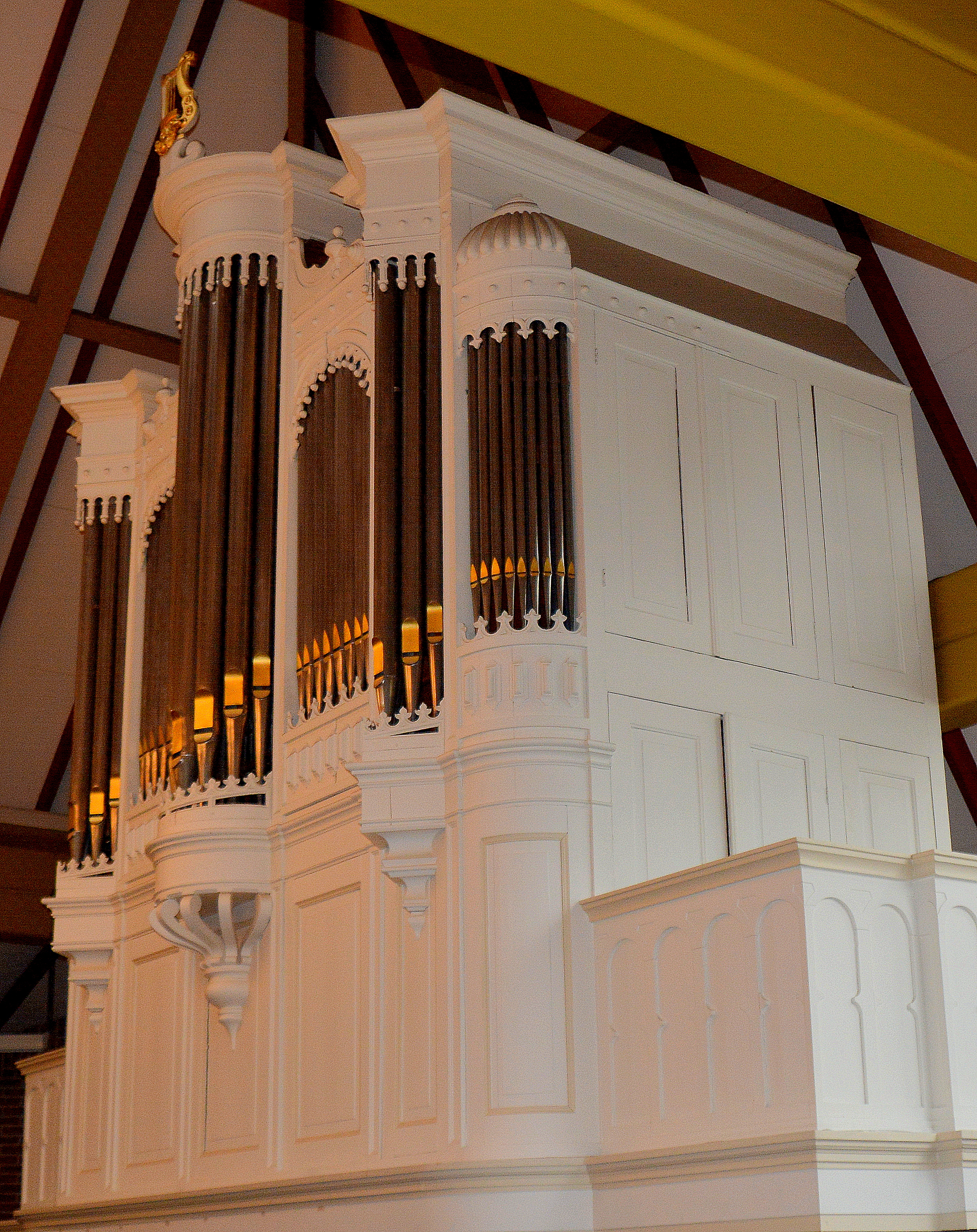 Leeuwarden, orgel christelijk-gereformeerde Bethelkerk